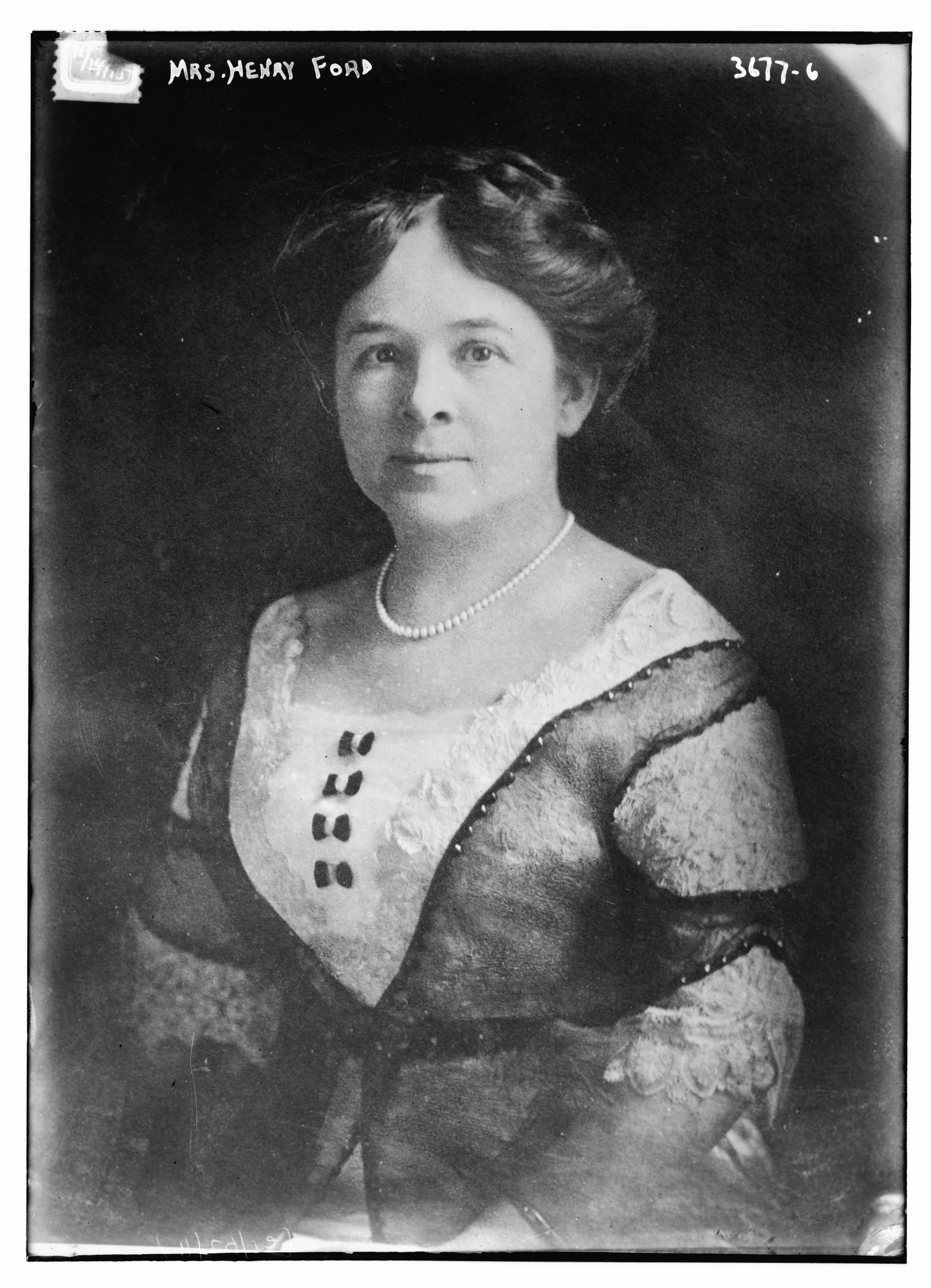 Title: Mrs. Henry Ford, 11/24/15 Abstract/medium: 1 negative : glass ; 5 x 7 in. or smaller.